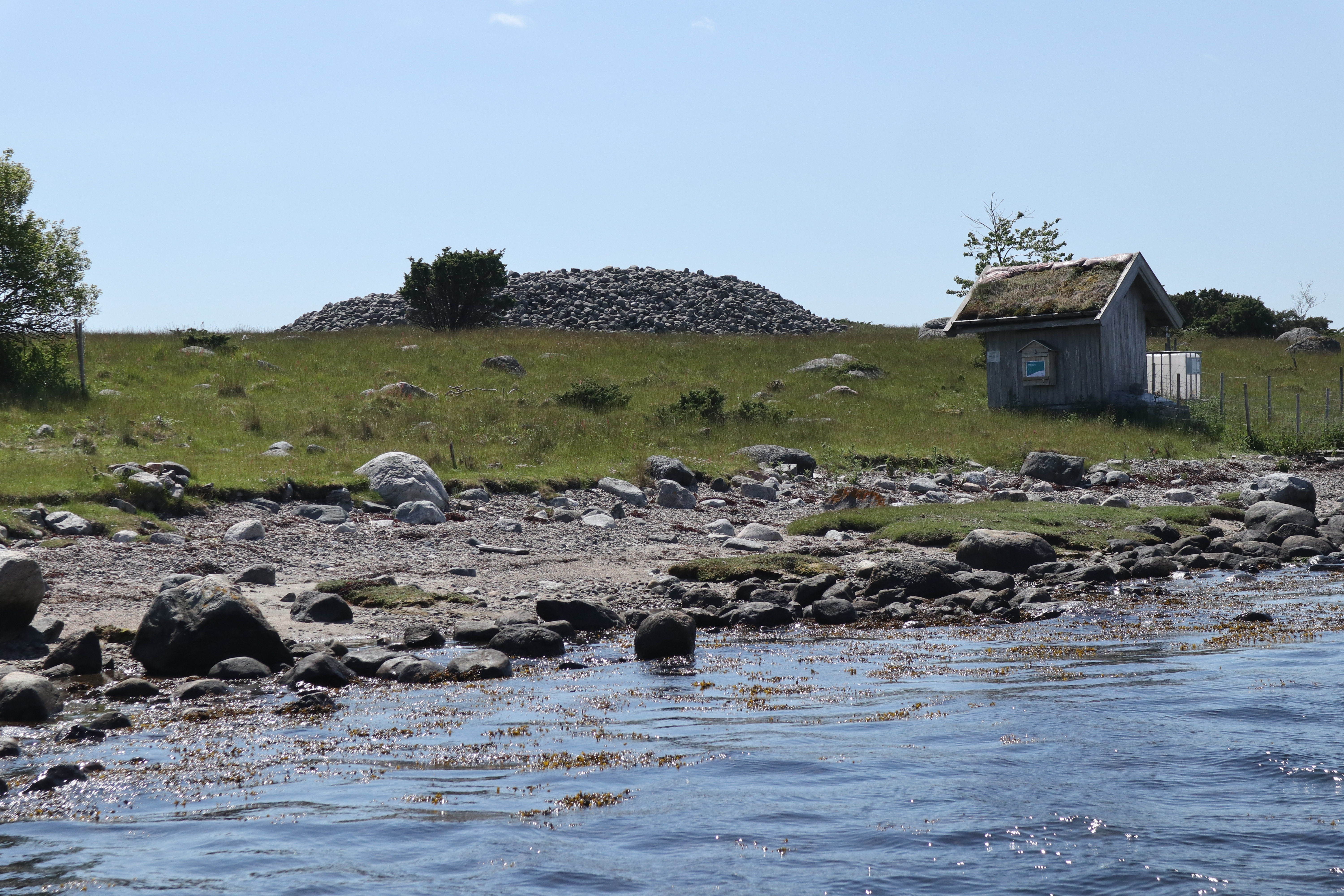 Jerkholmen